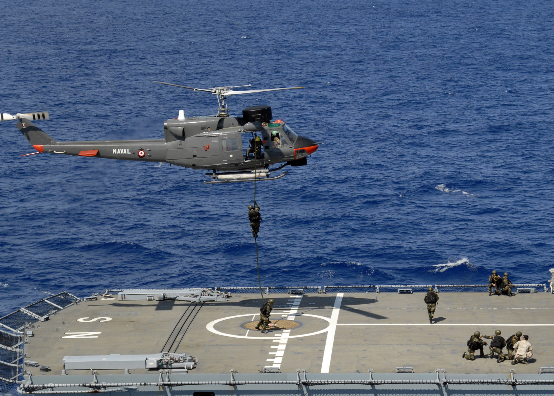 Mexican Military Commandos rappel onto the Federal Republic of Germany combat support ship Frankfurt am Main (AM 1412) during a boarding training exercise.